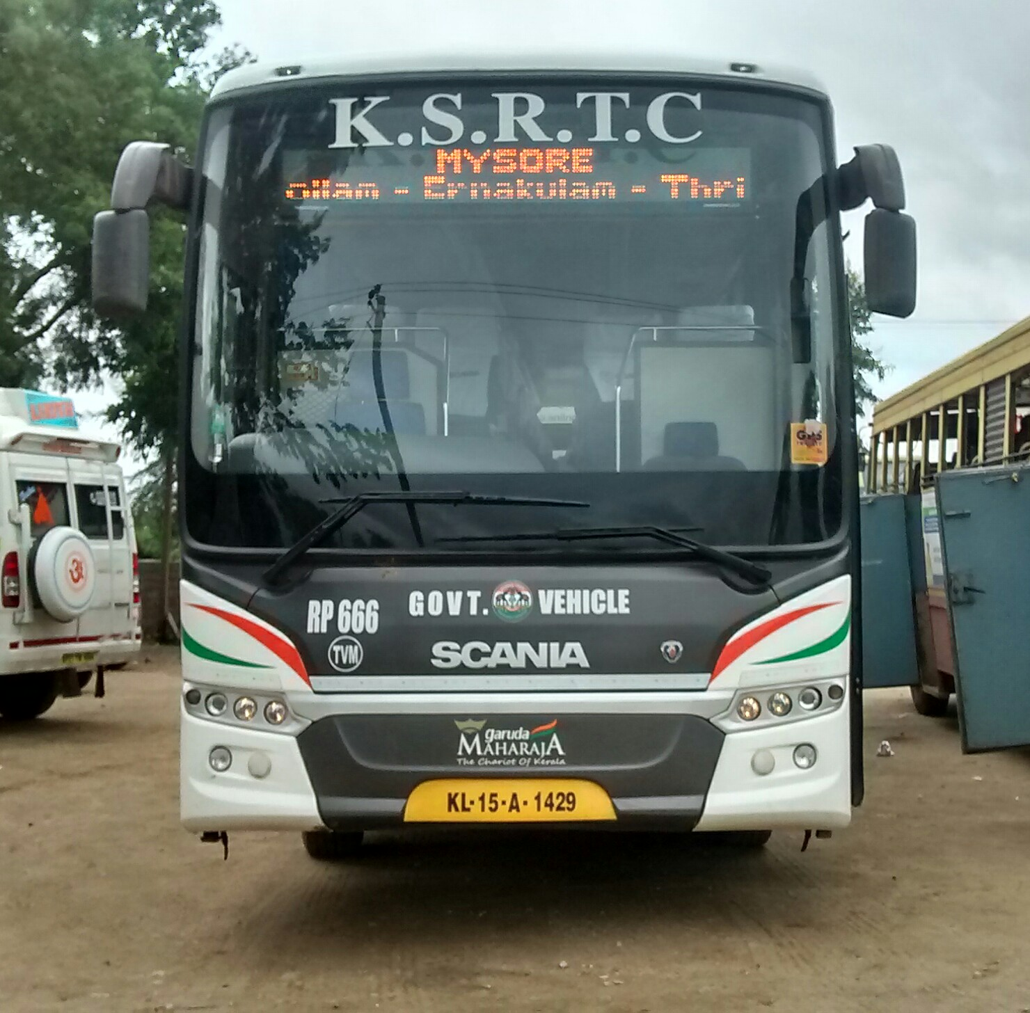 KSRTC Scania Maharaja King class heading Mysore RP 666 TVM